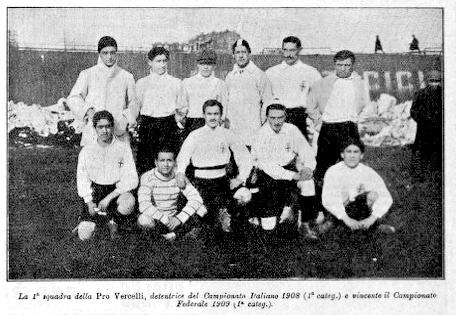 Pro Vercelli, 1909 Prima Categoria (Campionato Federale) winner.